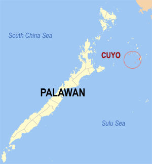 Map of Palawan showing the location of Cuyo